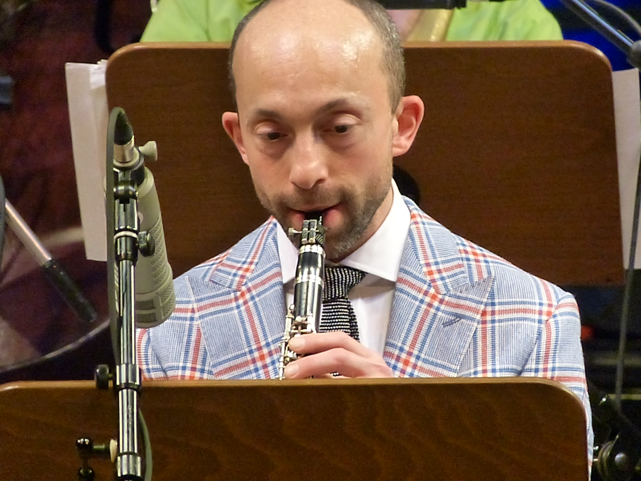 David Kweksilber in concert with his Big Band at WDR, Cologne, Germany, May 6th, 2017